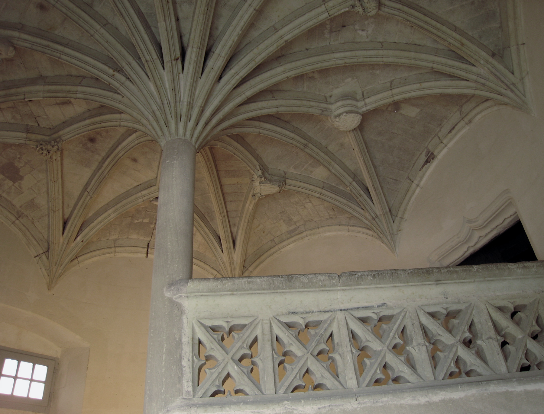 Castle of Baugé, home castle of the René, Duke of Anjou, also known as "King René", located in the village of Baugé in the county of Maine-et-Loire/France.